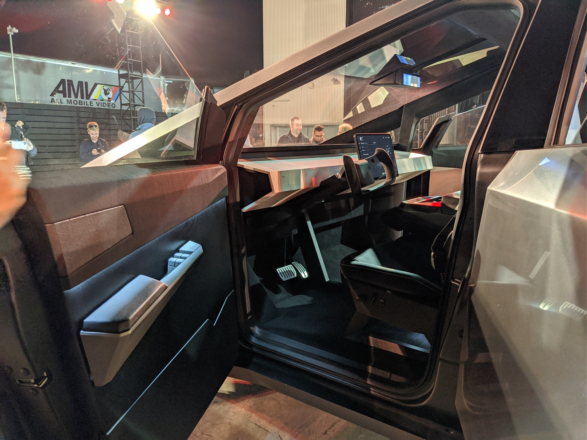 Tesla Cybertruck driving seat, showing pedals, open door, prototype steering wheel and marble-style dashboard